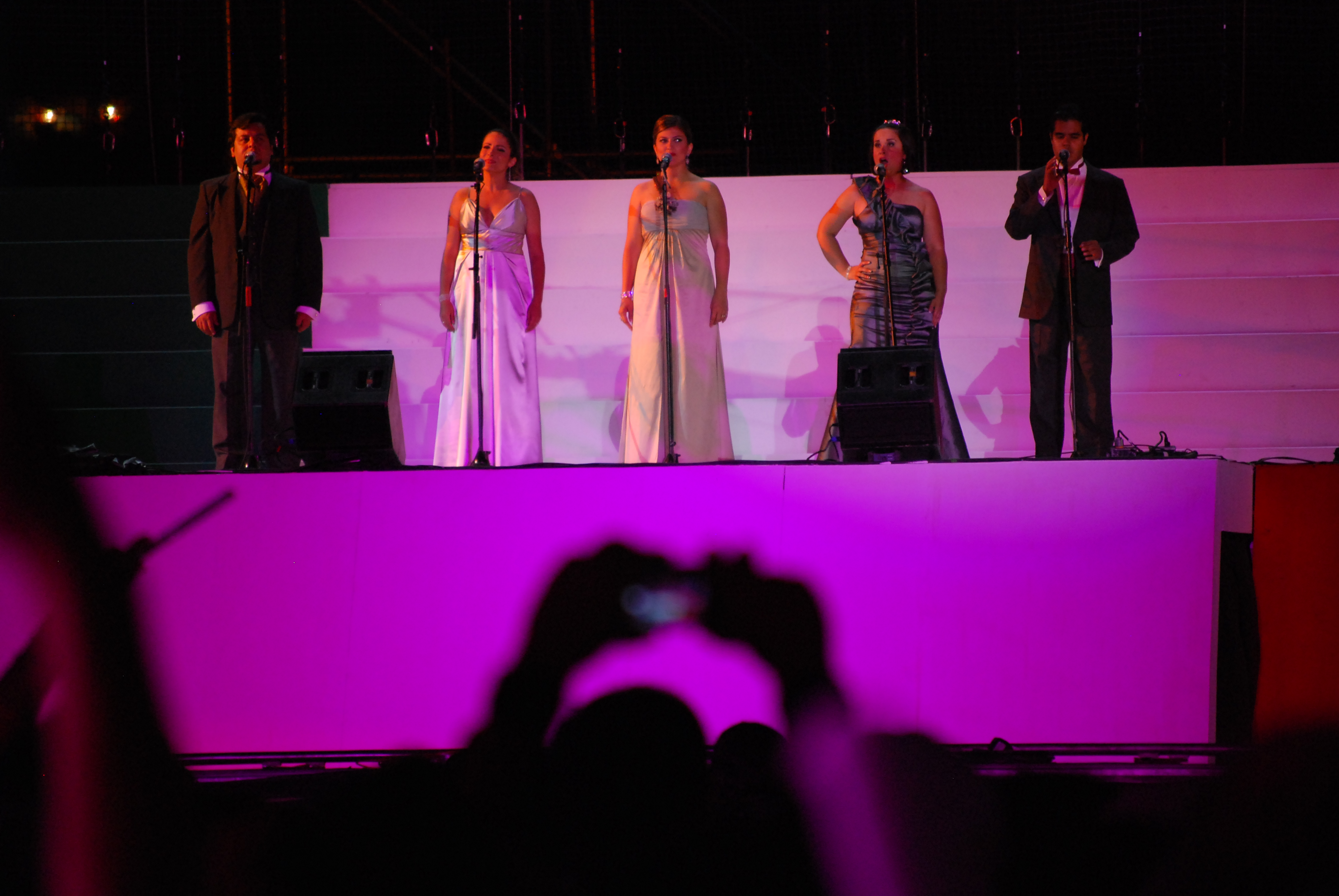 Opera singers performing at the Grito 2010 in the Zocalo